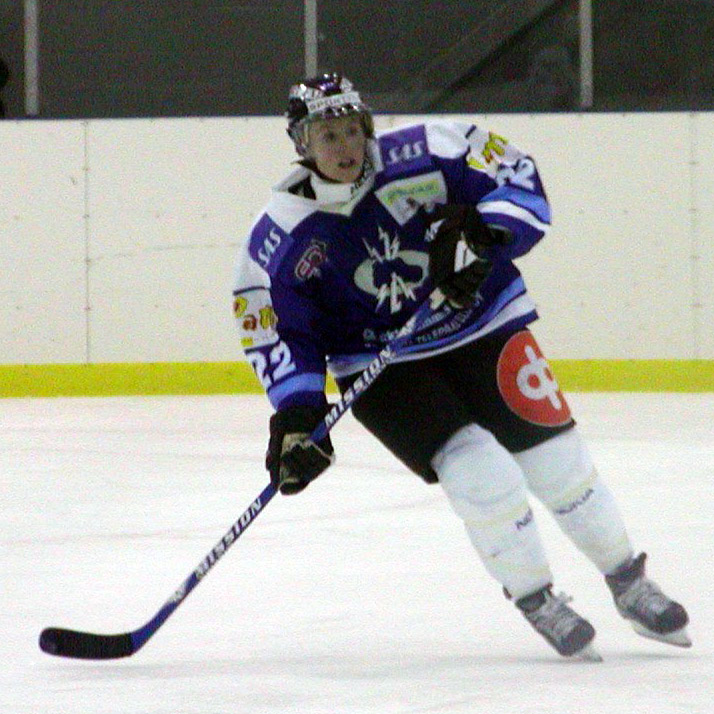 Canadian female ice hockey player Hayley Wickenheiser, in finnish male team Kirkkonummen Salamat 2003. Photo by Jonny Smeds.